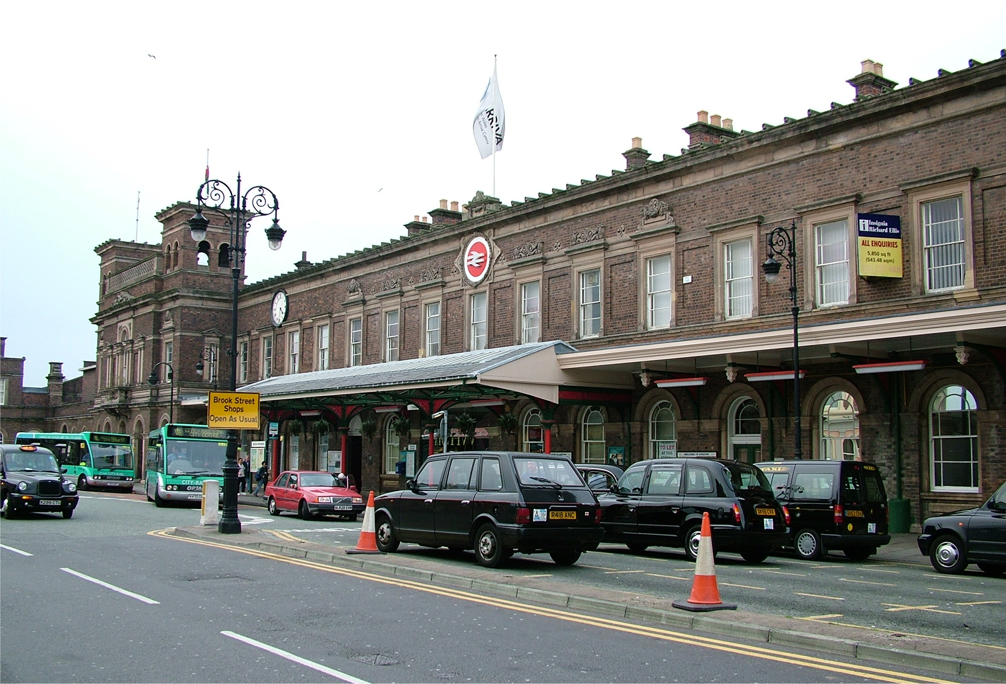 Chester railway station frontage